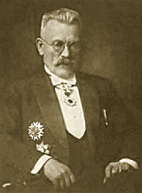 Picture of Gustaf John Ramstedt, (1873-1950)